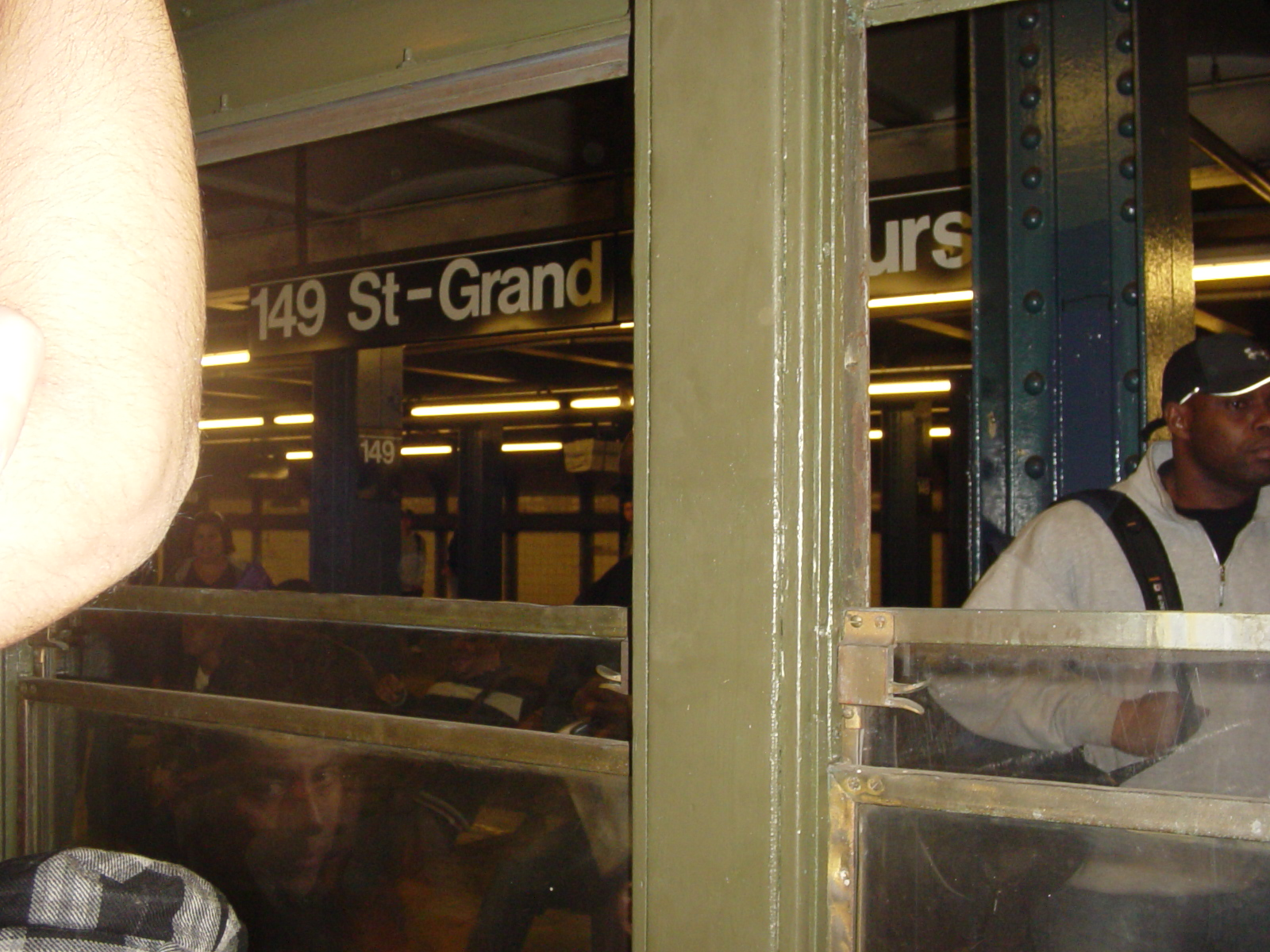 View of the 149th Street – Grand Concourse station on the IRT Jerome Avenue Line as seen from a special "Vintage Train" that operated on the occasion of Game 2 of the 2009 American League Division Series (New York Yankees vs. Minnesota Twins), October 9th, 2009.